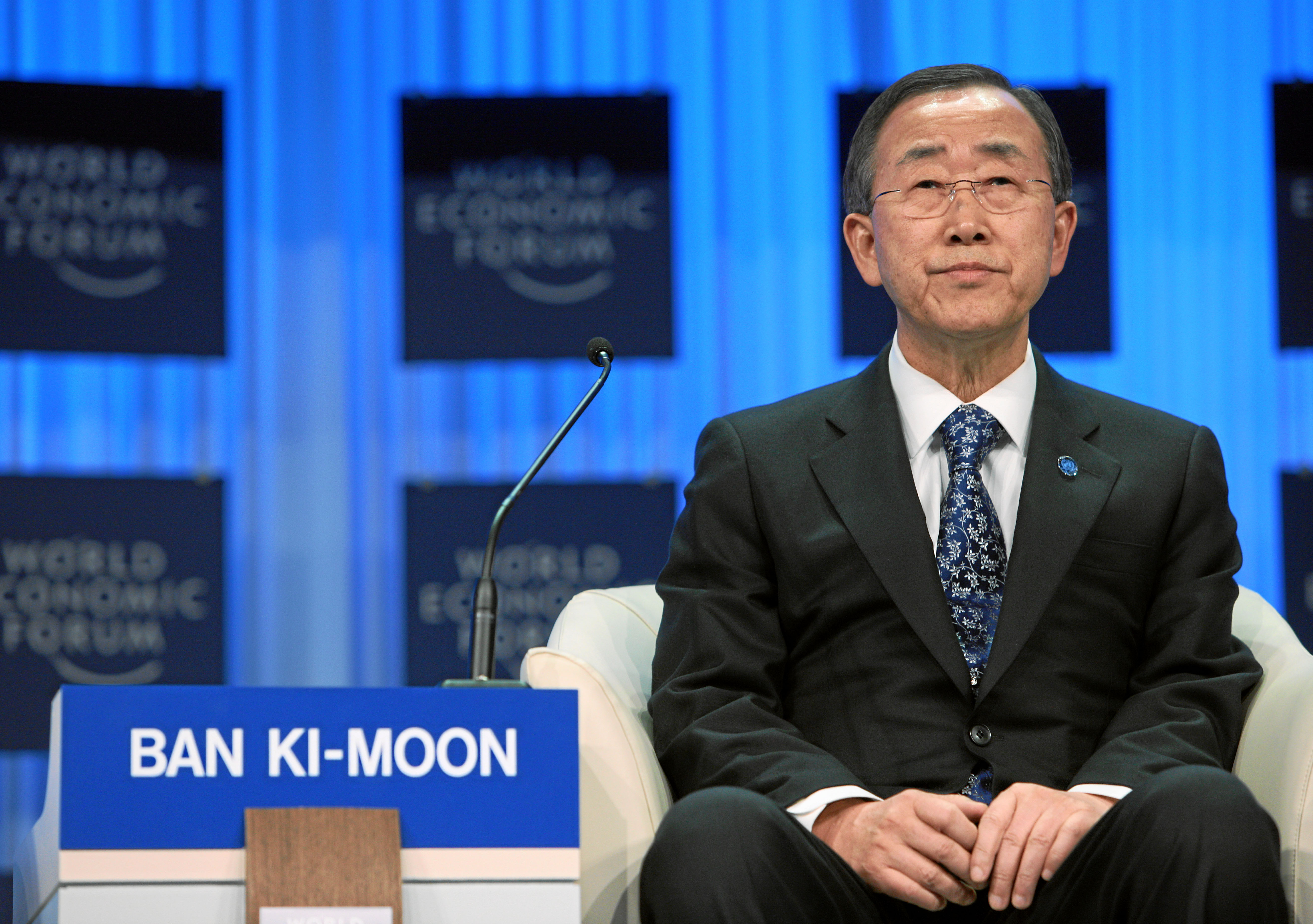 Ban Ki-moon - World Economic Forum Annual Meeting 2011